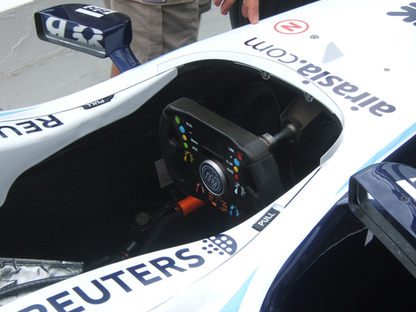 Steering Wheel of the Williams FW29